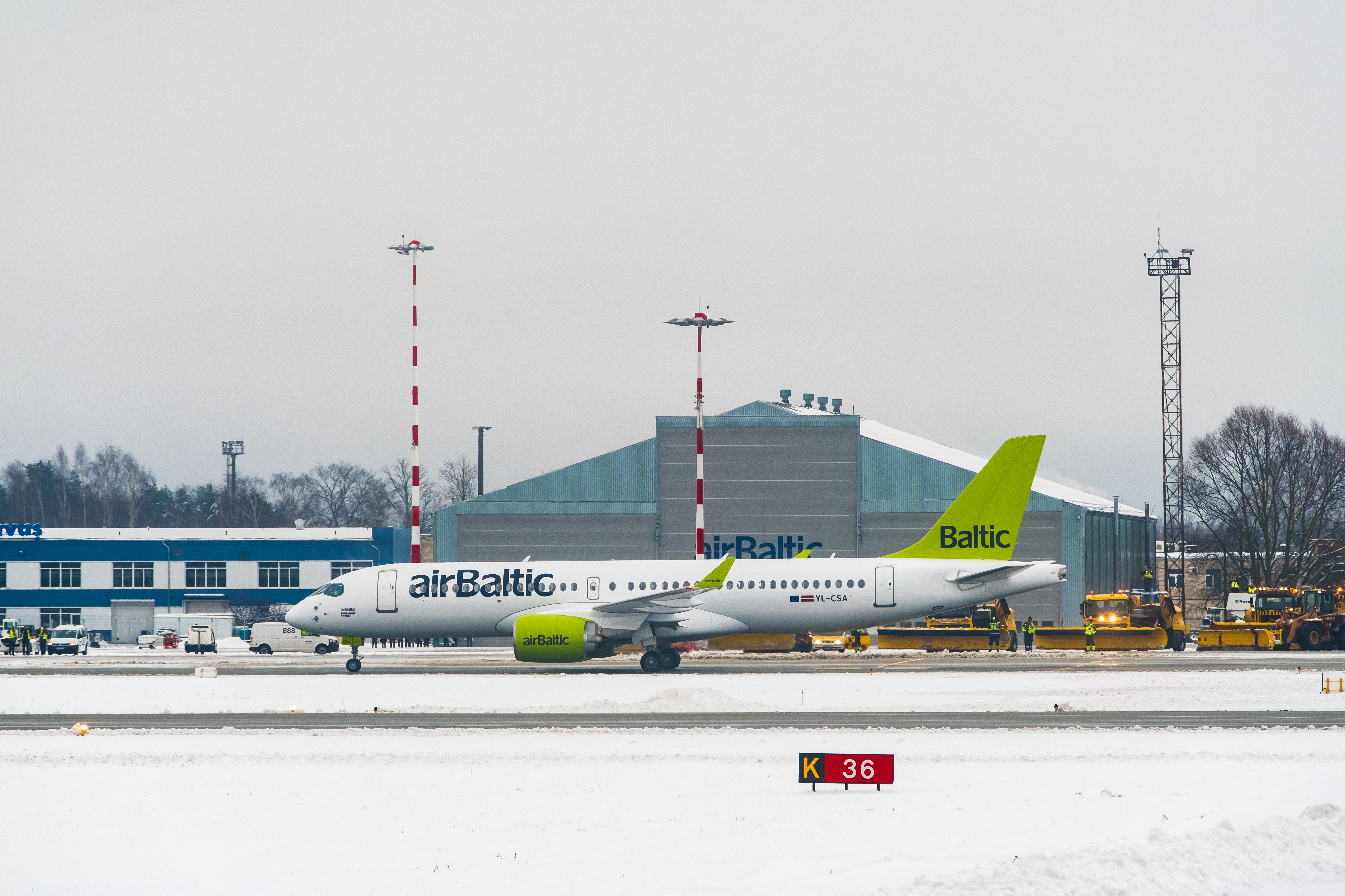 First CS300 arrives in Riga